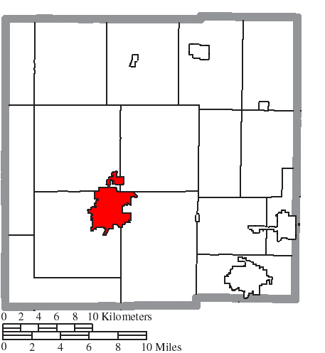 Map of the municipal and township boundaries of Crawford County, Ohio, United States, as of the 2000 census, with the location of the city of Bucyrus highlighted. Township borders are shown only in unincorporated areas in order to differentiate incorporated and unincorporated areas more clearly.